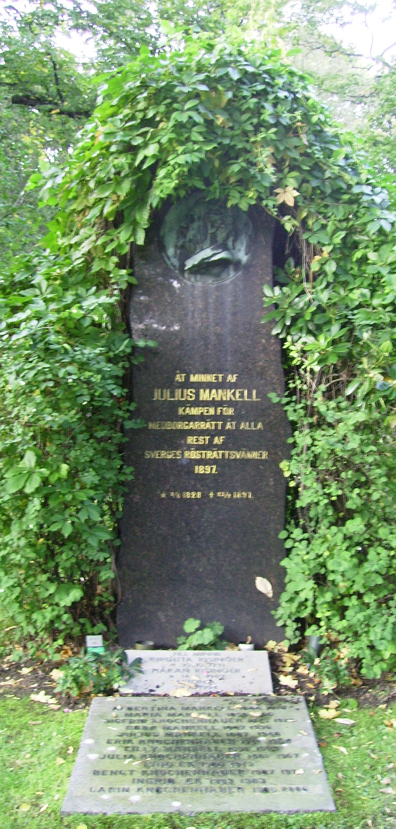 Picture of Julius Mankell's grave at Norra begravningsplatsen in Stockholm